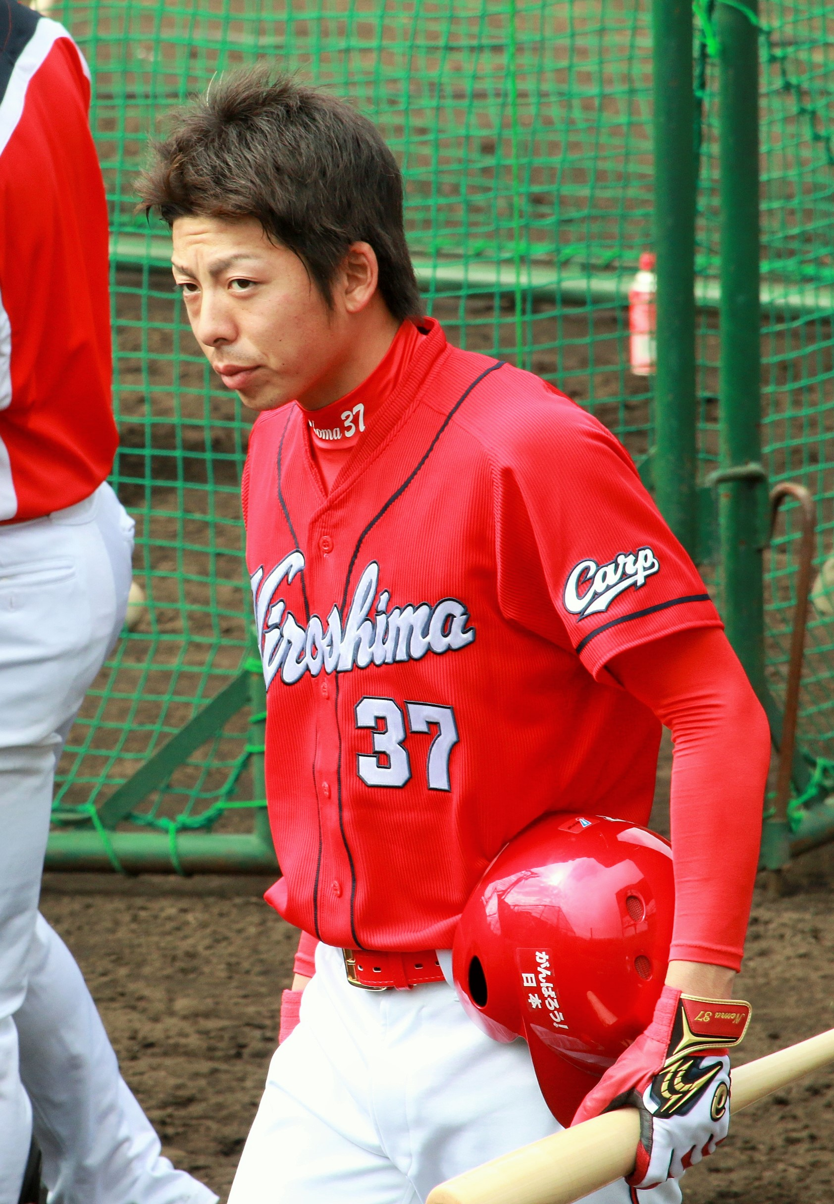 Takayoshi Noma, outfielder of the Hiroshima Toyo Carp, at Nichinan Tempuku Baseball Stadium.